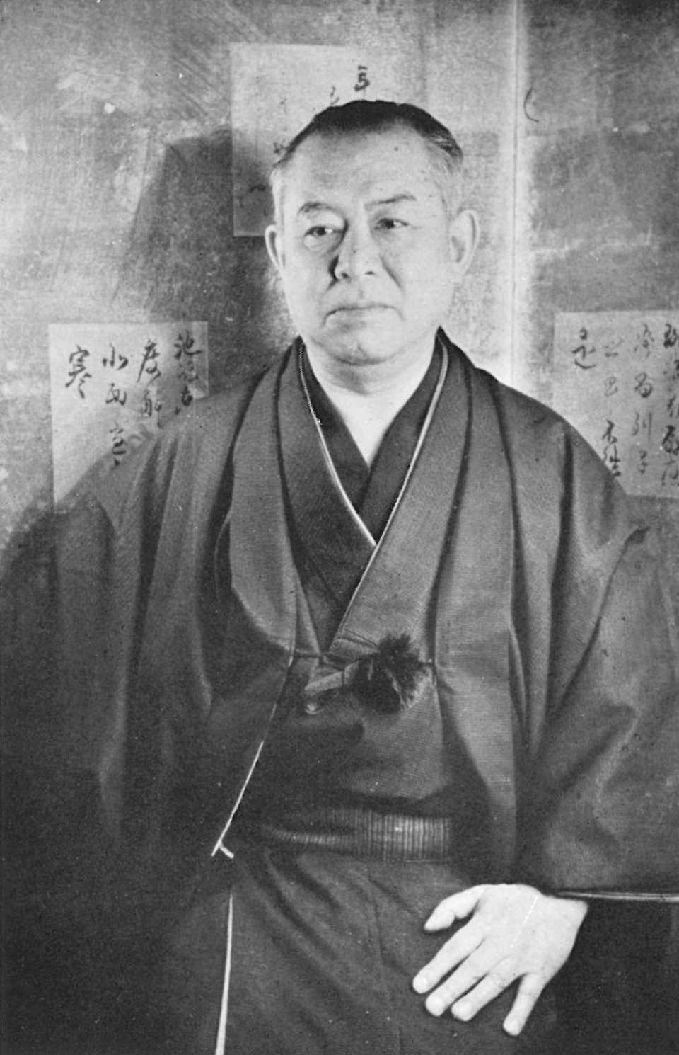 Junichiro Tanizaki